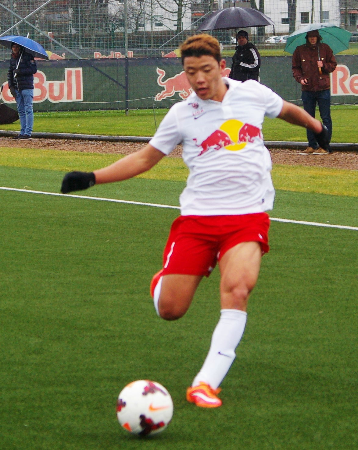 friendly match